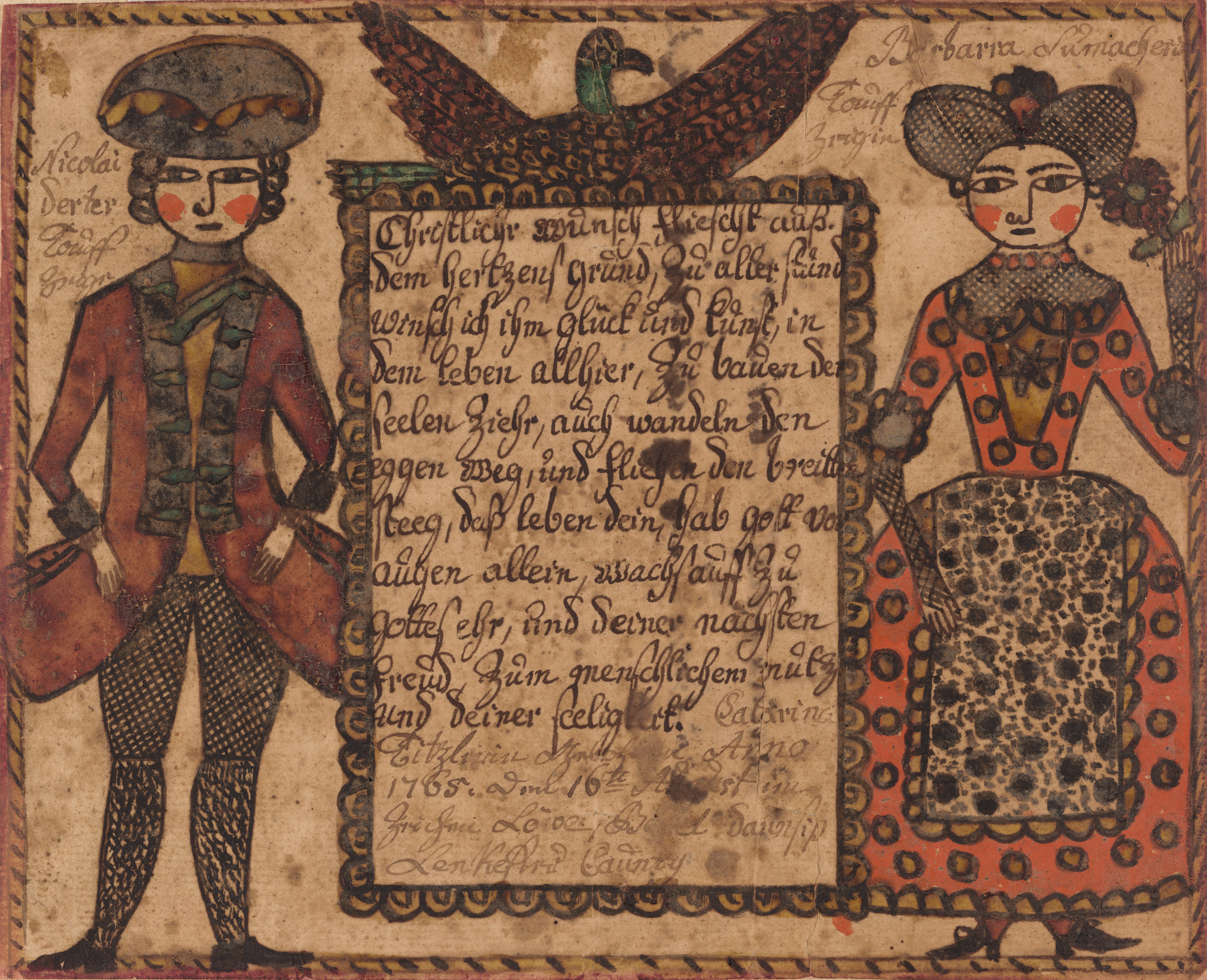 Sussel-Washington Artist (American, active second half of the 18th Century), Baptismal Wish for Catarina Titzlir, c. 1765, pen and brown ink and transparent and opaque watercolor on laid paper, Gift of Edgar William and Bernice Chrysler Garbisch 1966.13.15